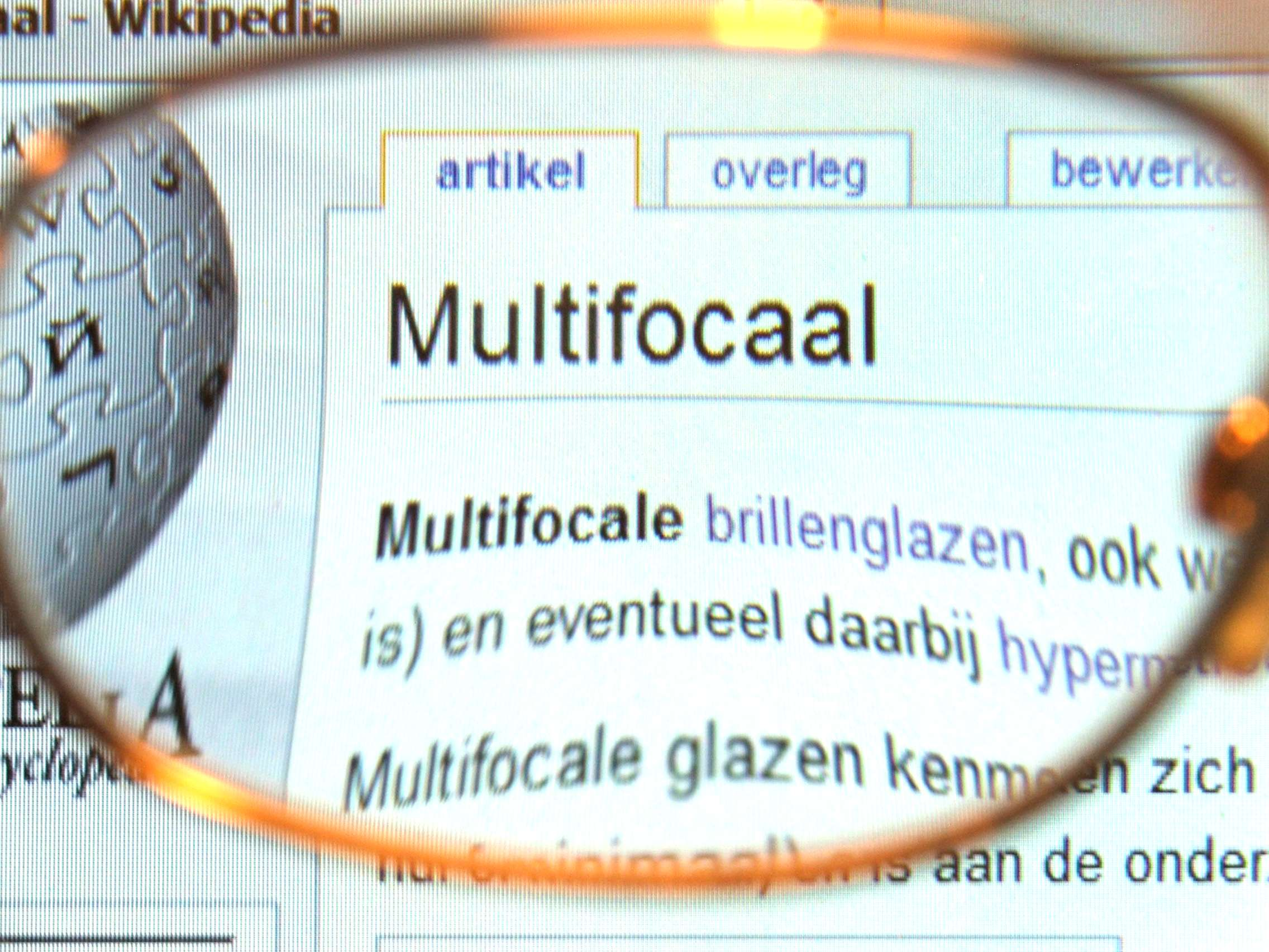 View through a progressive glass at some distance. In normal use, a much smaller section of the glass is used, so that the distortion is much smaller. (This photo was made using a standard camera (Fujifilm S5500), with a 3 dpt reading glass held in front of it as a close-up lens.)